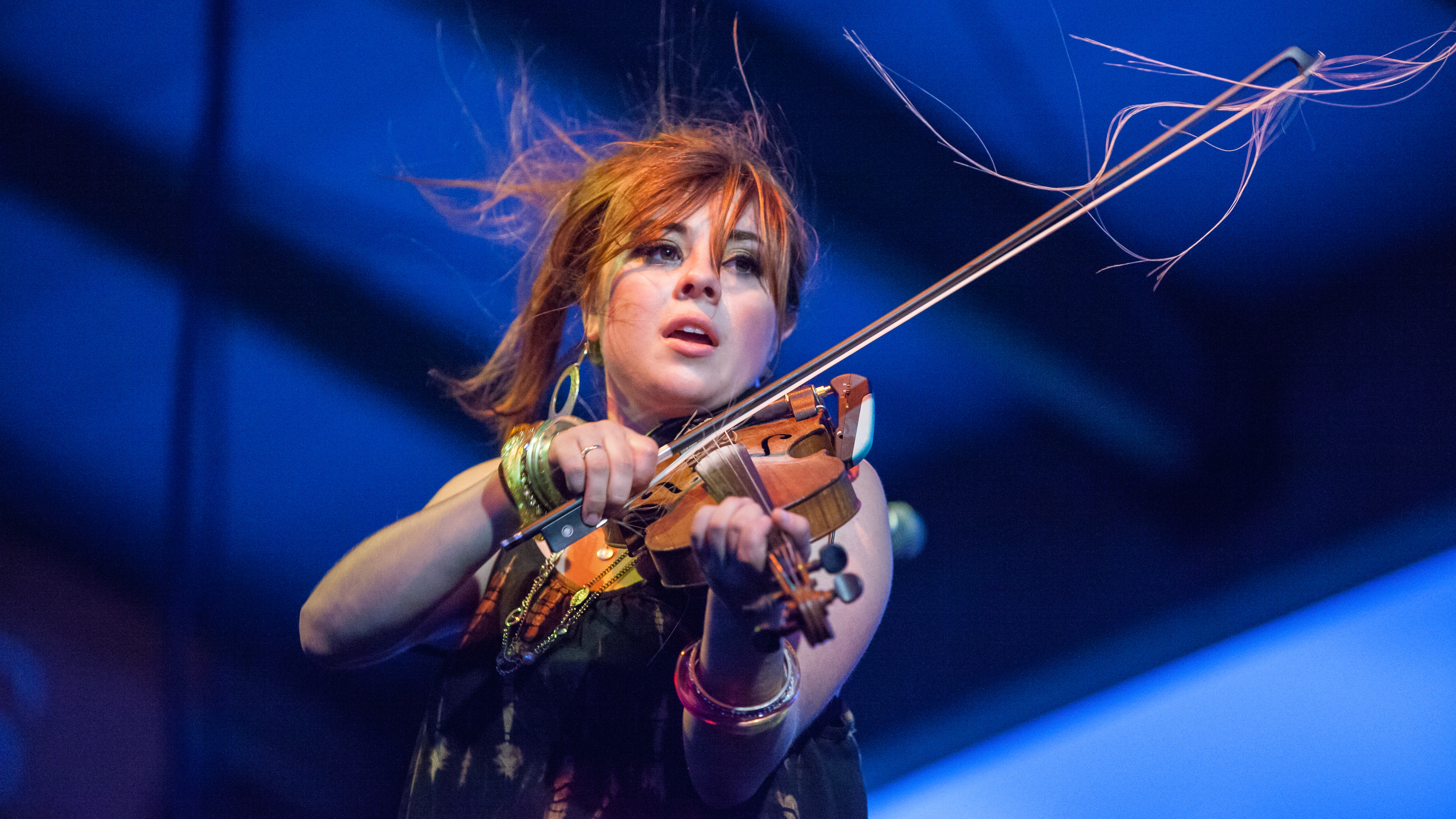 Dynamic Cajun fiddler Amanda Shaw performs during the 30th Annual Mudbug Madness Festival in downtown Shreveport, Louisiana. Mudbug Madness is an annual celebration of Louisiana culture held in Shreveport over Memorial Day Weekend.